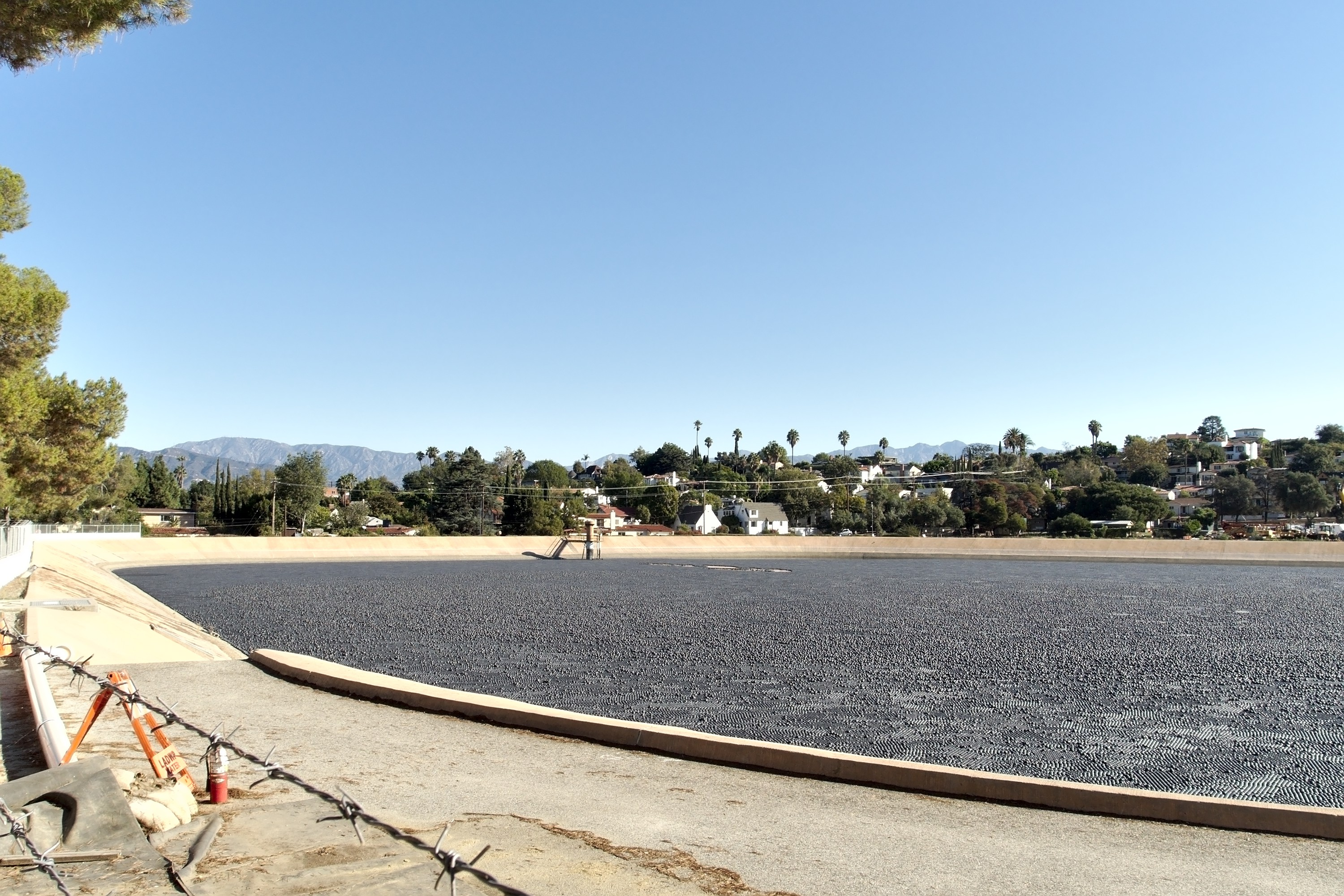 The Ivanhoe Reservoir after the addition of "shade balls", looking north from southwest corner.